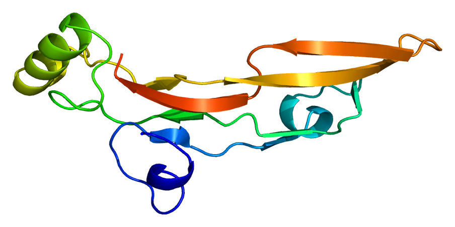 Structure of the TGFB2 protein. Based on PyMOL rendering of PDB 1tfg.